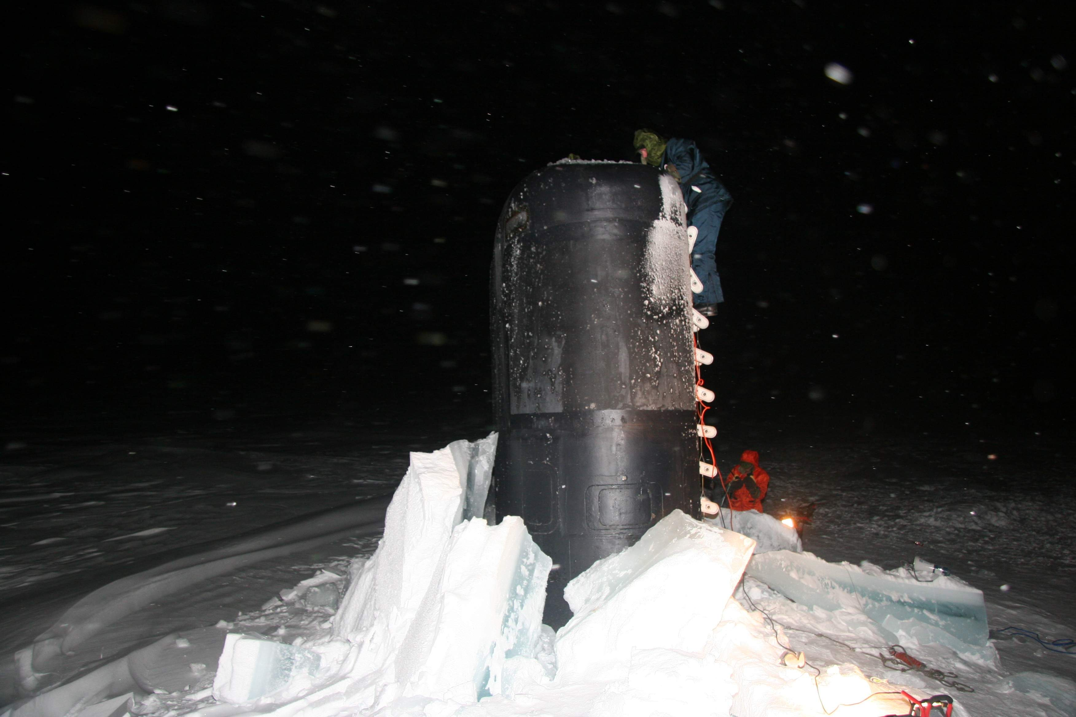 The Los Angeles class attack submarine Charlotte (SSN-766) broke through 61 inches (155 cm) of ice to surface at the North Pole during their Arctic transit from Pearl Harbor, Hawaii, to Norfolk, Virginia. Even though the wind chill factor reached a low of -50 degrees Fahrenheit (−46 °C), crewmembers ventured out on the ice for a once-in-a-lifetime opportunity for some "ice liberty." Charlotte is undergoing a temporary change of homeport for a Depot Modernization Period (DMP) at Norfolk Naval Shipyard, Portsmouth, Va. Photo